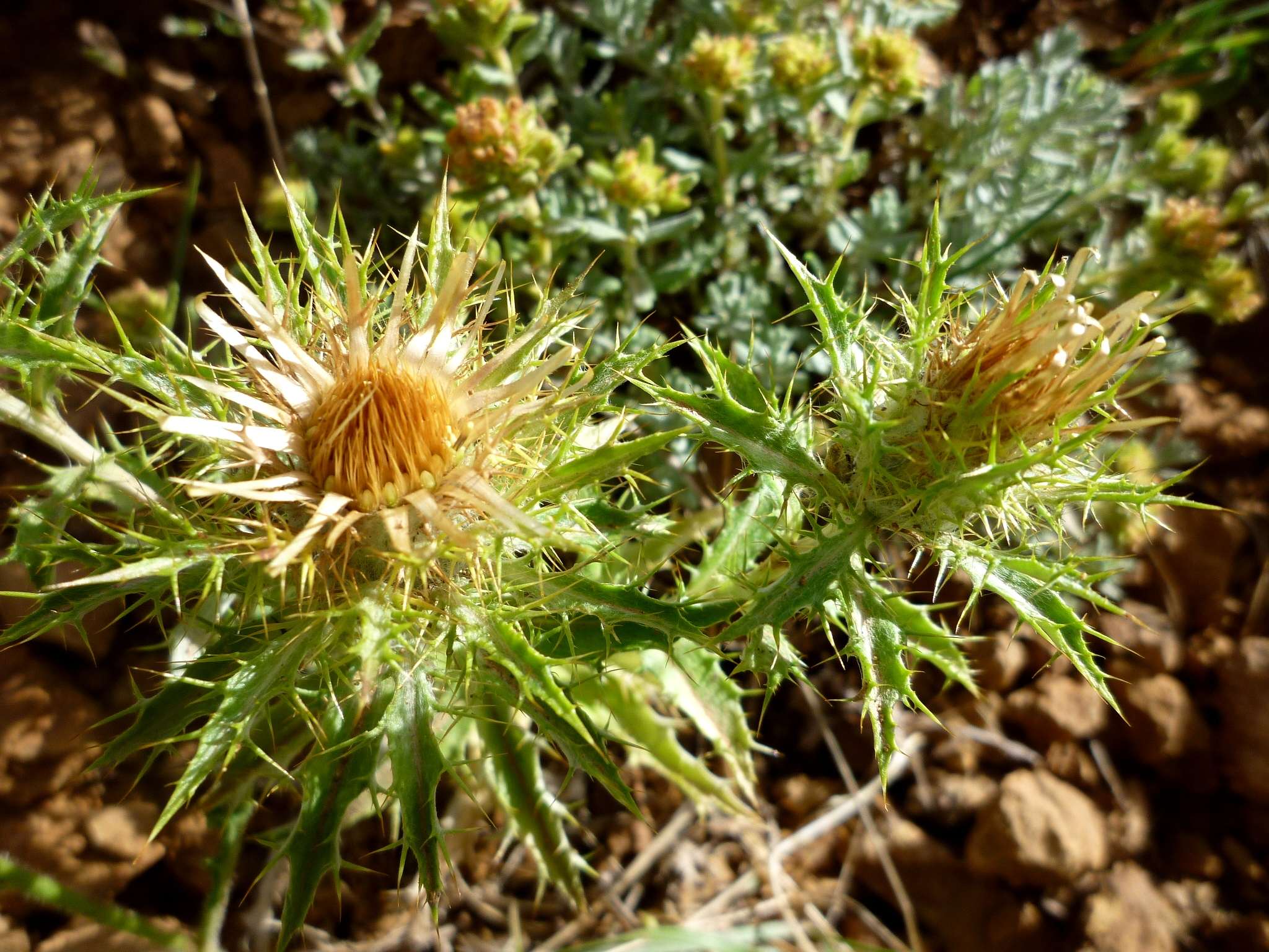 Carlina vulgaris. In la Bòfia, La Vansa (Alt Urgell - Catalunya). To 1.500 m. altitude